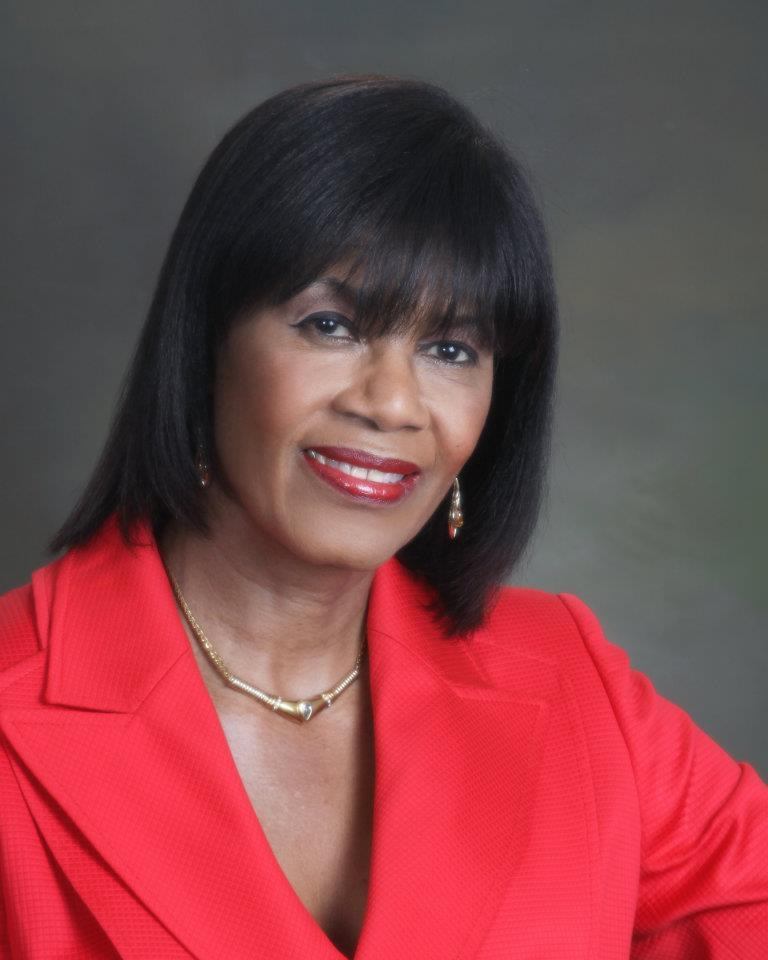 Portia Simpson Miller Photo from my Shoot